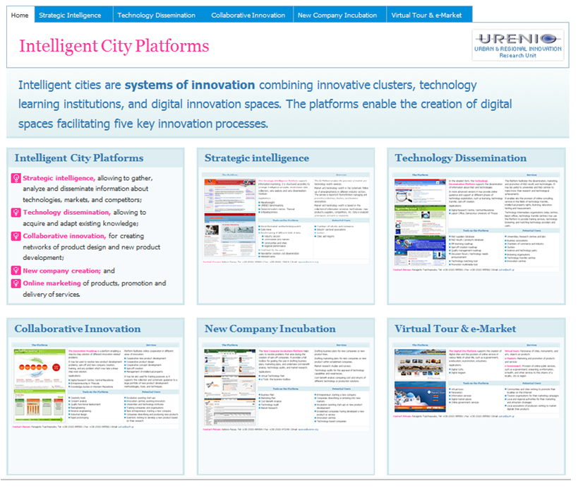 Title: intelligent city platforms